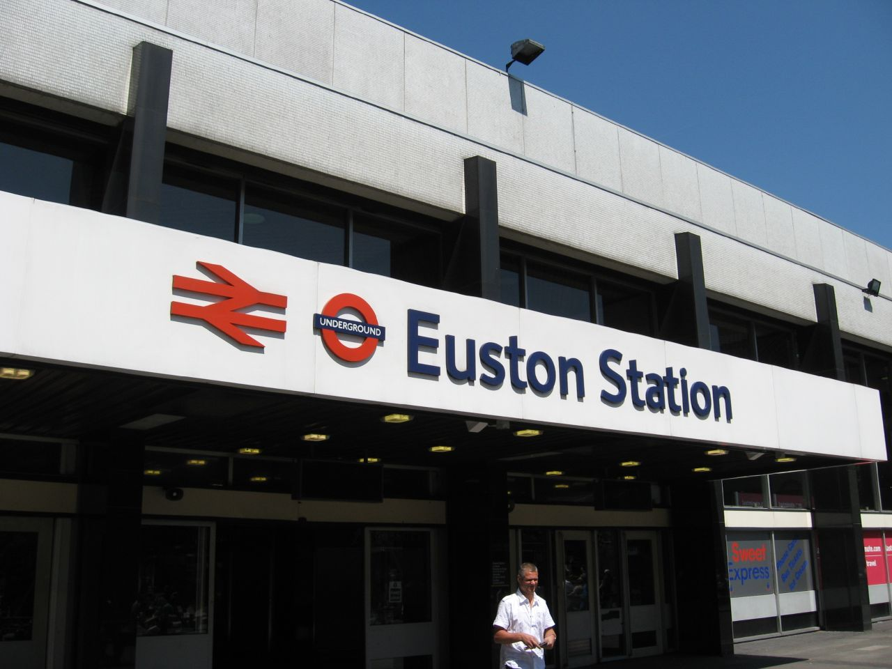 Euston Station